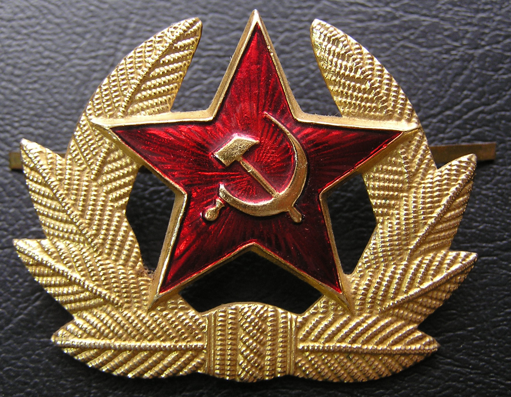 Soviet Armed Forces